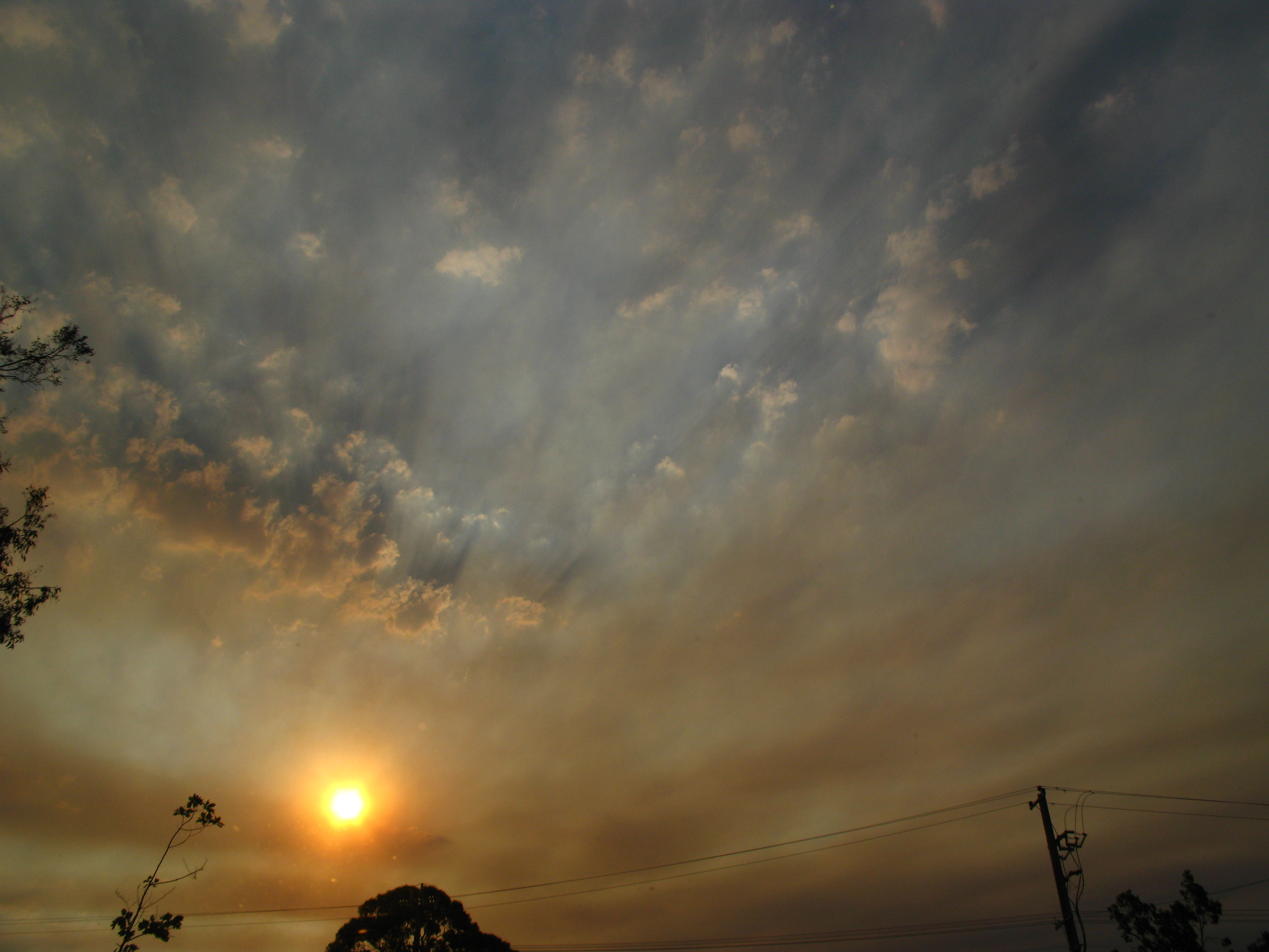 Smoke from the various bushfires that continued or started burning on the 23rd of February, 2009. Photo taken by myself looking east at the sky above and towards the city, showing a layer of smoke and the higher layer of cloud.